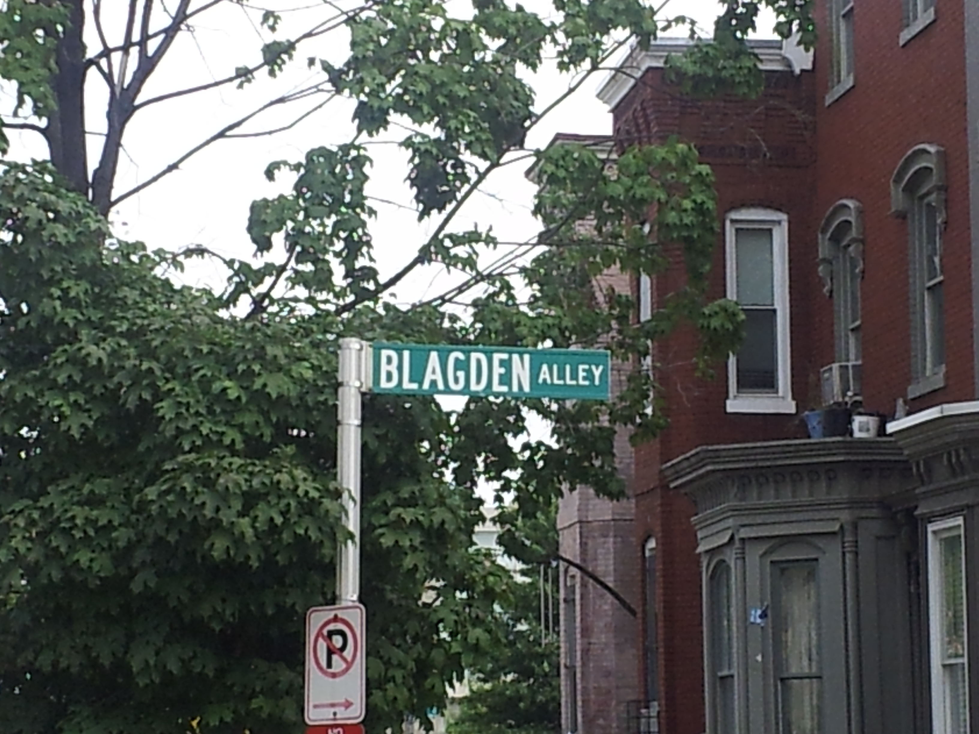 Located on N Street NW between 9th and 10th Street.